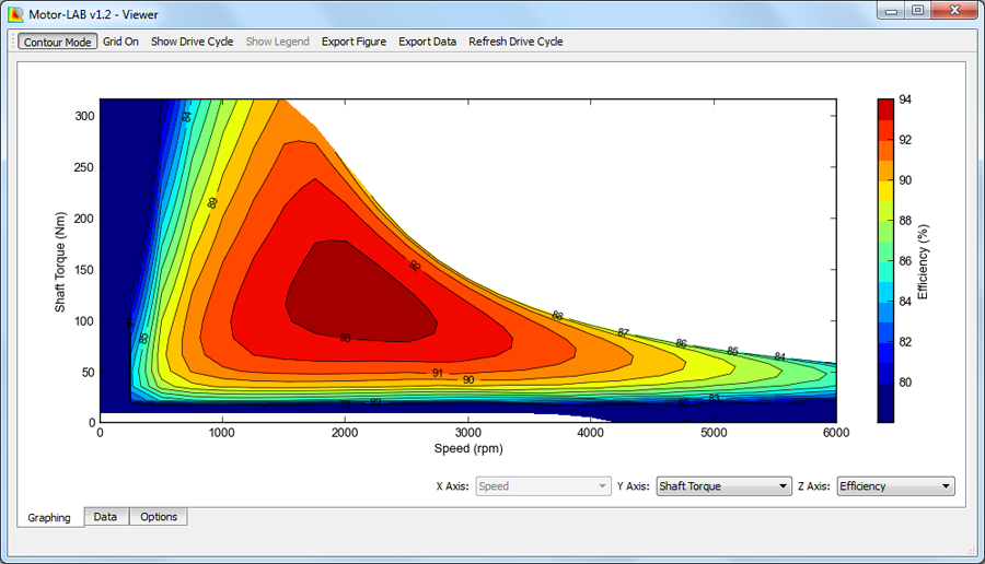 Motor-CAD Lab screenshot